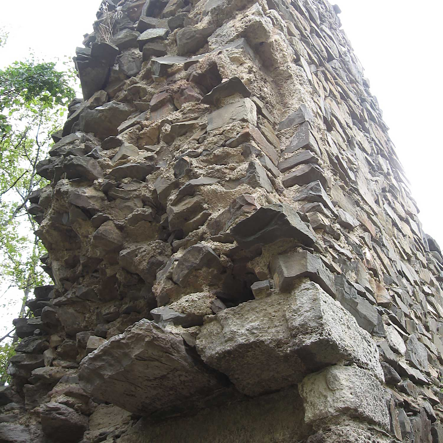 Medieval city Srebrnica in Stragari, Kragujevac